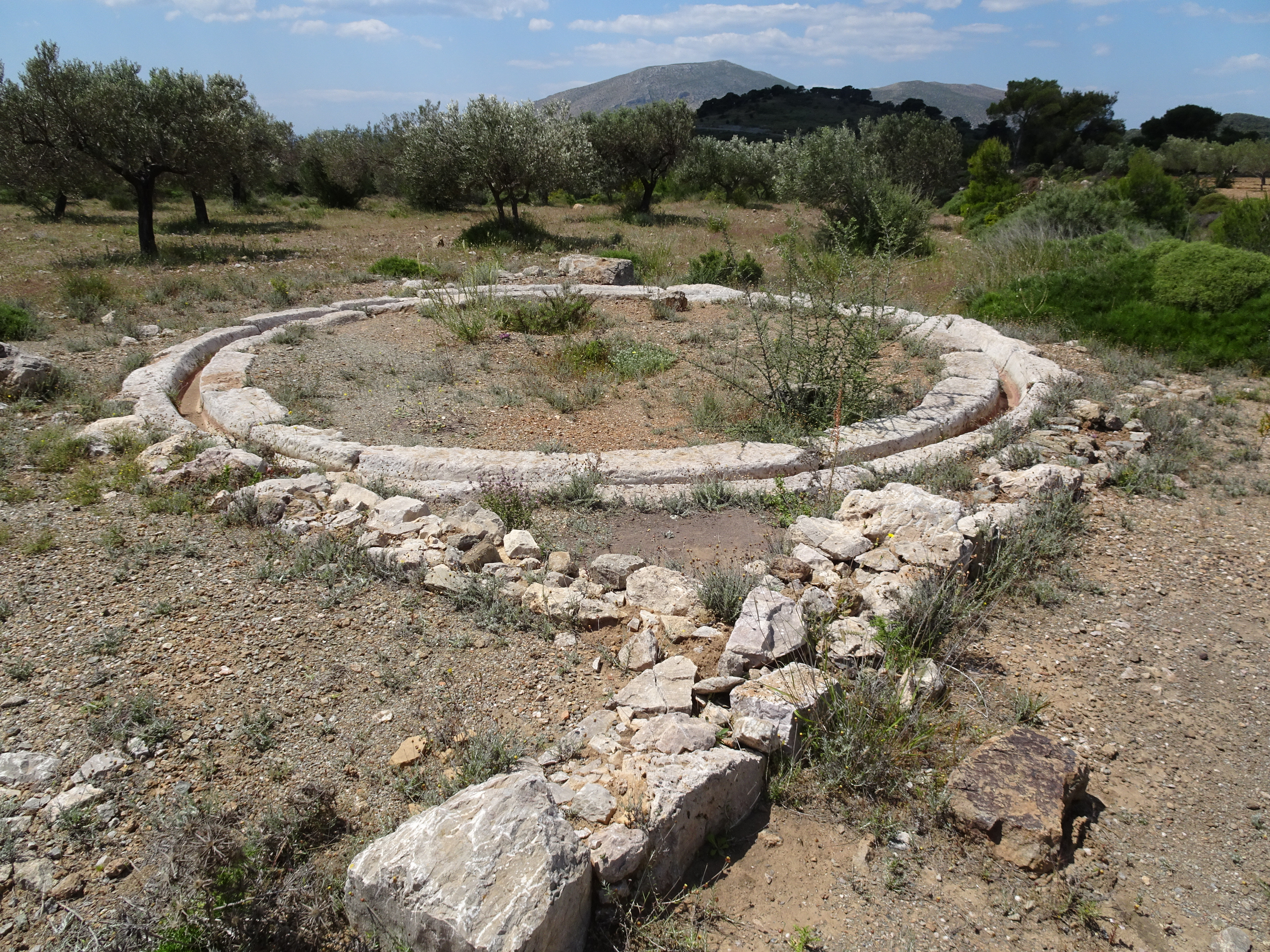 Ancient Lavrion Specific installation to enrich and prepare the ore before taken to the furnace for smelting in order to recover the argentiferous lead in a metallic state (Ary Lavrion)